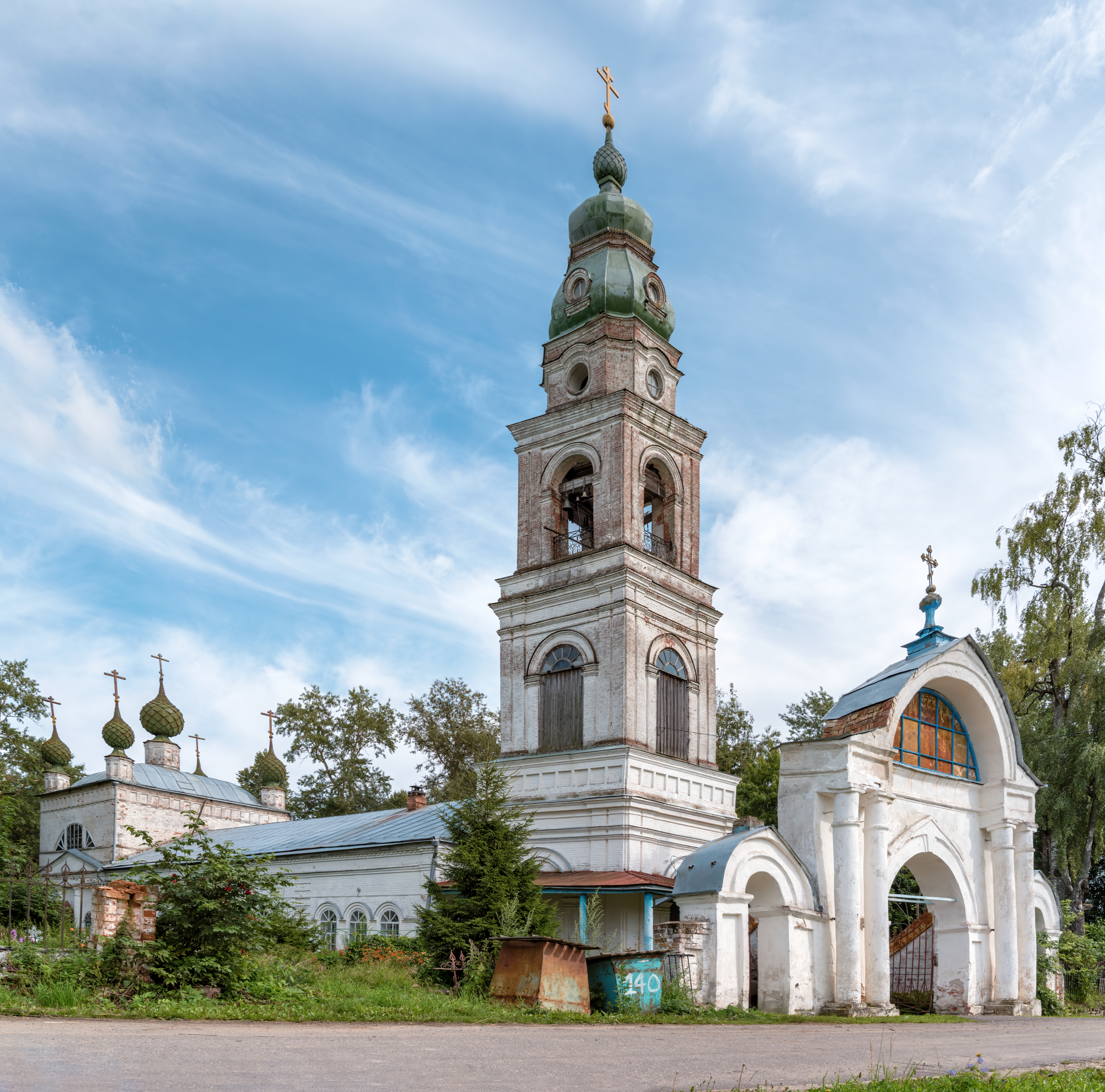 Church of the Dormition of the Theotokos in Zakobyakino settlement. Yaroslavl Region, Russian Federation.